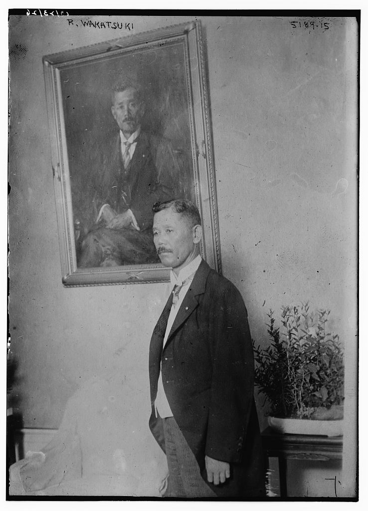 Japanese Prime Ministers Reijirō Wakatsuki stands before his portrait.